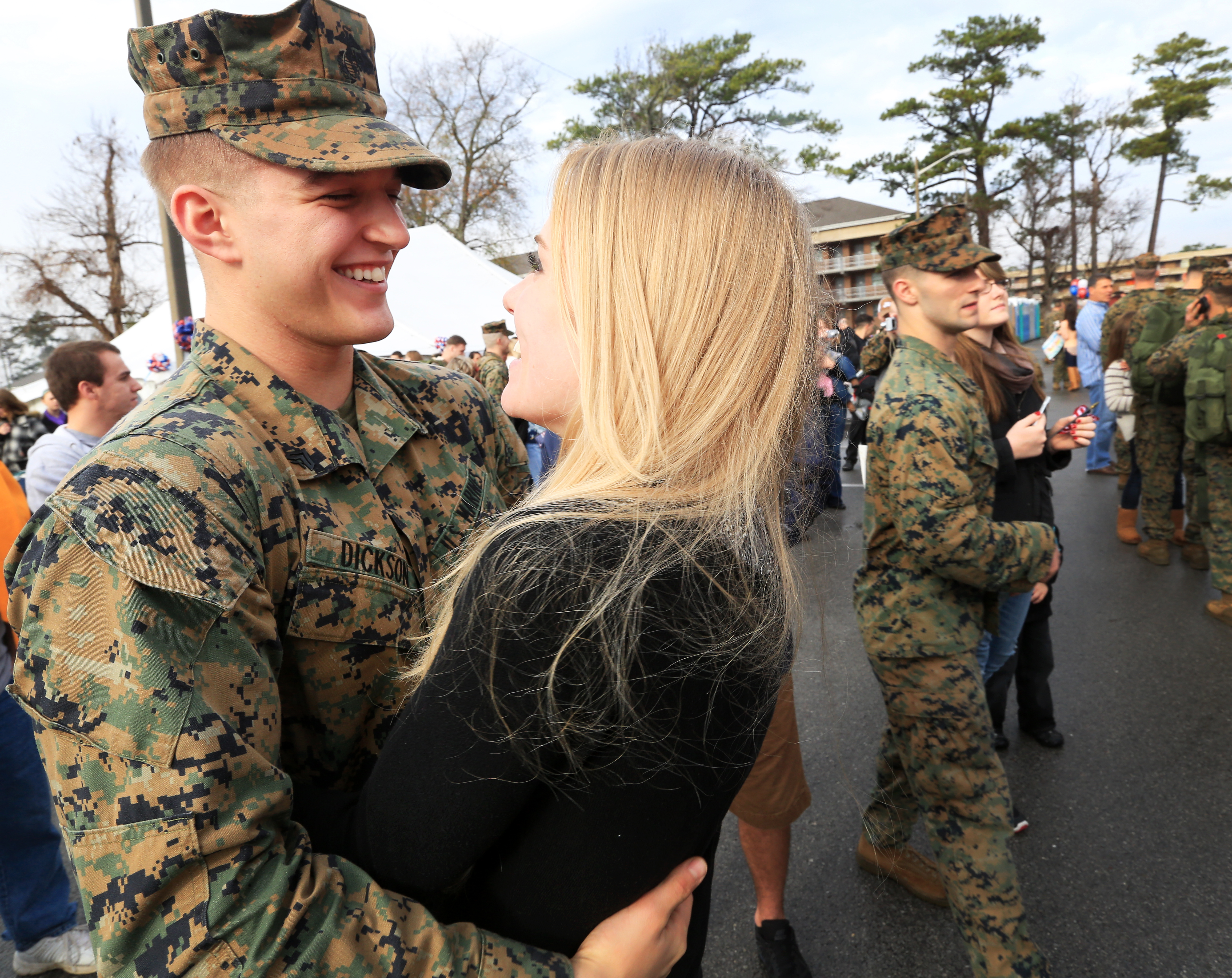 Cpl. David J. Dickson, a rifleman with Bravo Company, Battalion Landing Team 1st Battalion, 2nd Marine Regiment, 24th Marine Expeditionary Unit, embraces a loved one during a homecoming ceremony on Camp Lejeune, Dec. 16, 2012. The 24th Marine Expeditionary Unit has returned to the U.S. after completing nearly nine months deployed as an expeditionary crisis response force with the Iwo Jima Amphibious Ready Group. Approximately 2,300 Marines and Sailors of the 24th MEU will be offloading over the next few days from amphibious assault ships USS Iwo Jima, USS New York and USS Gunston Hall, using Navy hovercrafts at Onslow Beach, by flying in with their own aircraft and by using the Morehead City Port facility. (U.S. Marine Corps Photo by Sgt. Richard Blumenstein)